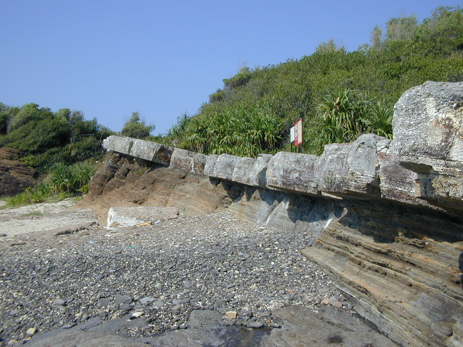 Photo of Ping Chau in Hong Kong. A grey layer of chert lies on top of brown layers of alternating mudstone and siltstone. The rocks are part of the Ping Chau Formation of Paleogene age. This specific location is called Lung Lok Shui (龍落水)